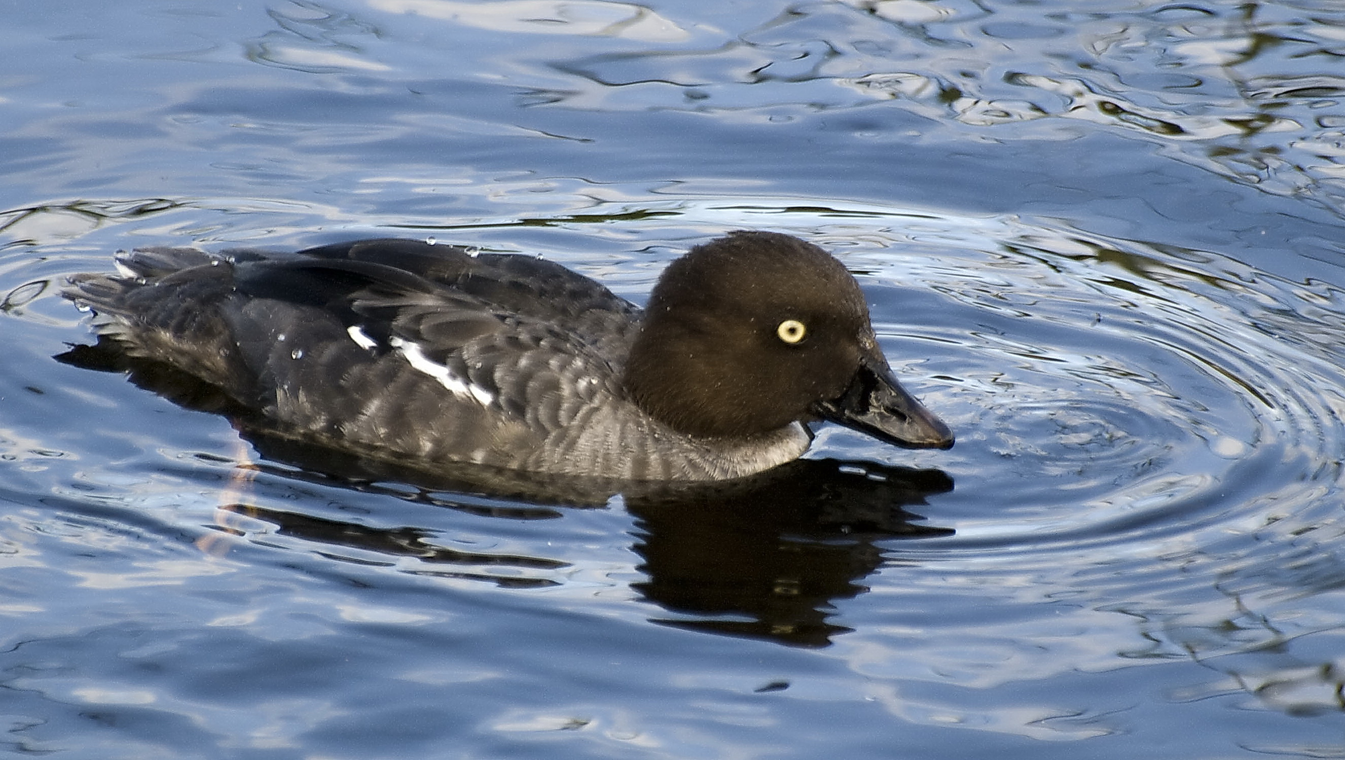 Goldeneye, young female